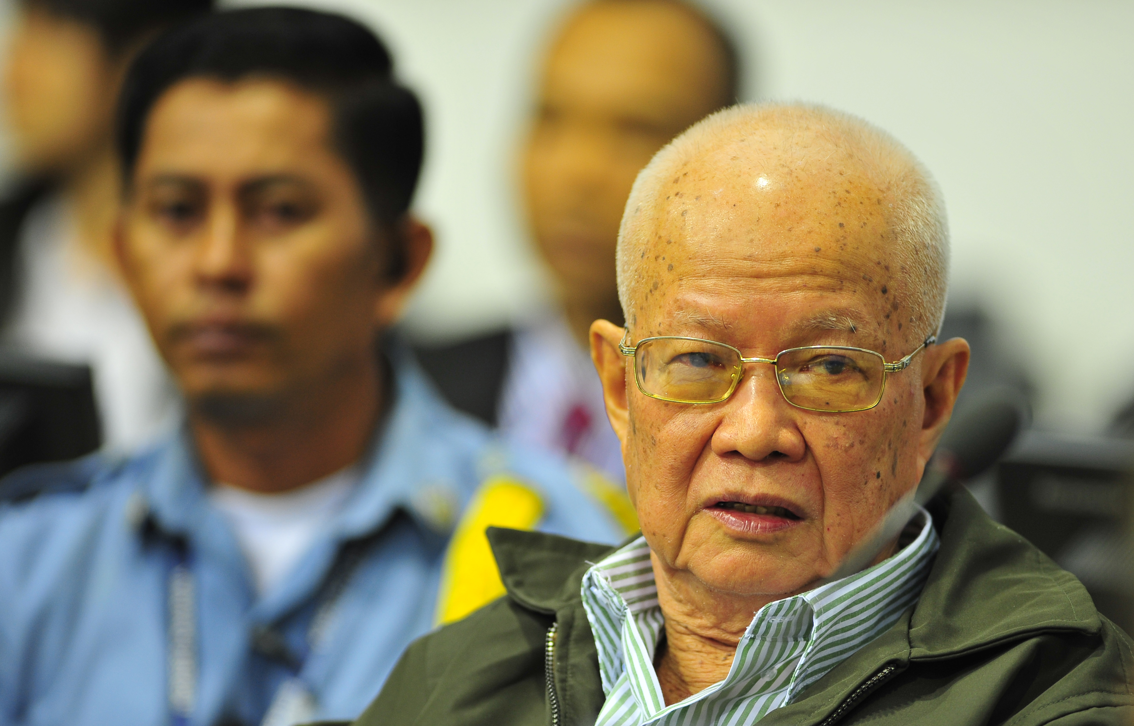 28 June 2011: Khieu Samphan during the second day of the Case 002 Initial Hearing